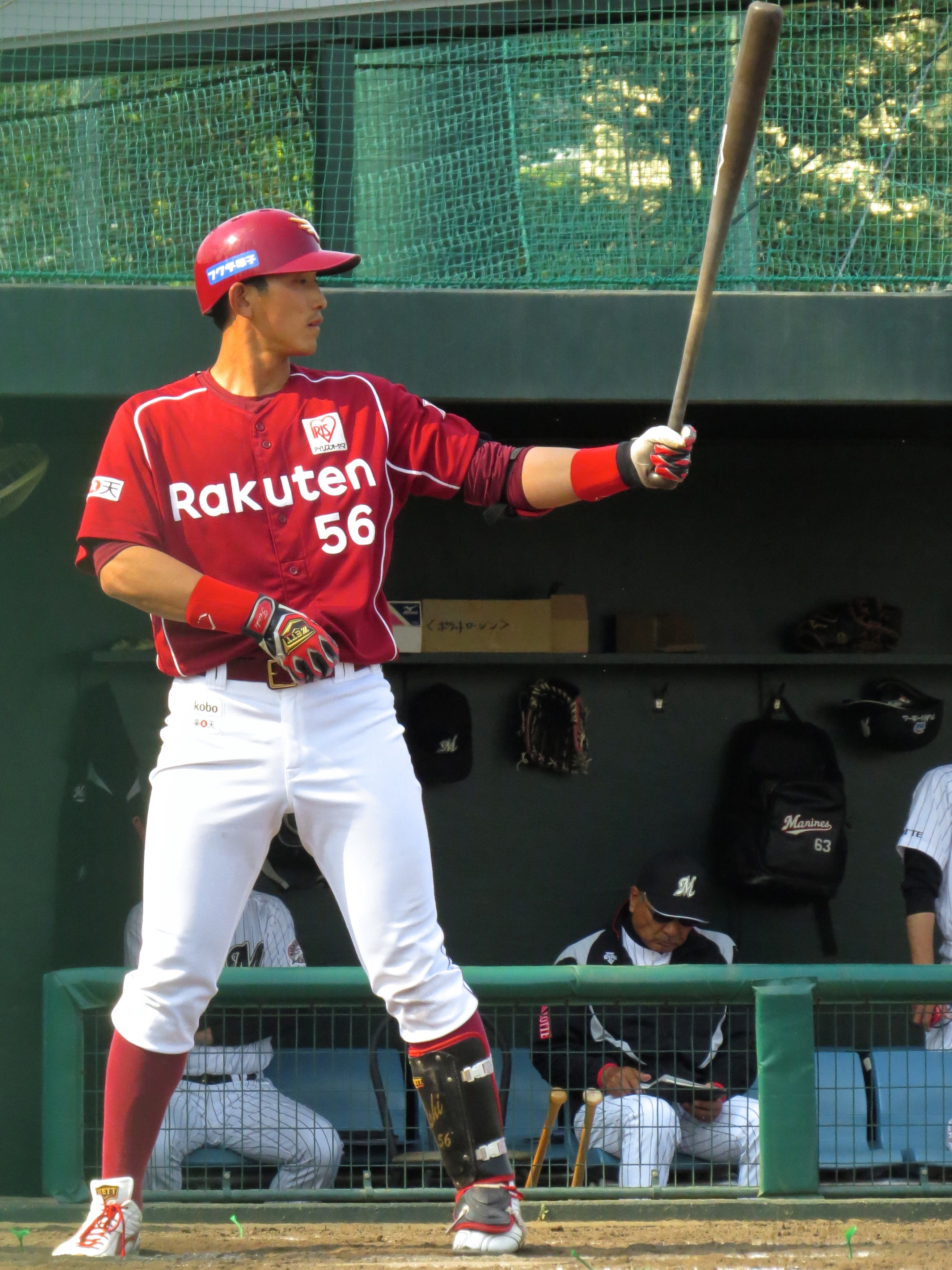 Taishi Nakagawa, infielder of the Tohoku Rakuten Golden Eagles, at Lotte Urawa Baseball Ground.